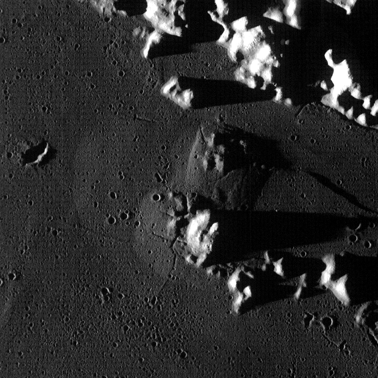 Group of lunar domes (probably, shield volcanoes or laccoliths; see Lena R. et al. (2013) Lunar Domes: Properties and Formation Processes. — P. 26, 119–121, 142; in Sinus Iridum on the Moon. Montes Jura are seen on the top. Combination of two photos by Lunar Reconnaissance Orbiter, made with Wide Angle Camera on 30 December 2010 from altitude 35 km. Sun elevation is 2°. Size of the photo is 50×50 km, north is approximately up.